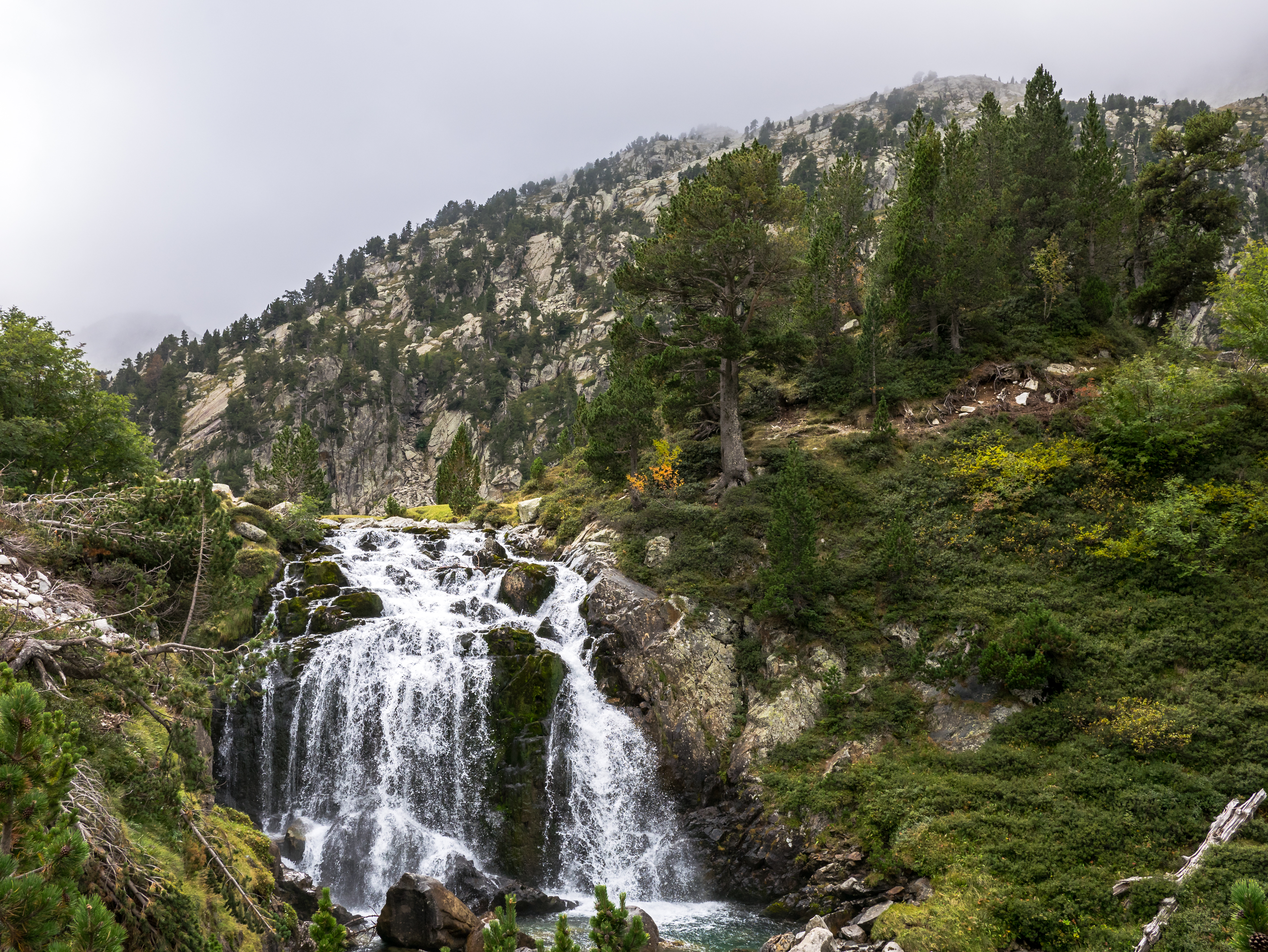 Forau de Aigualluts, waterfall. Huesca, Aragon, Spain